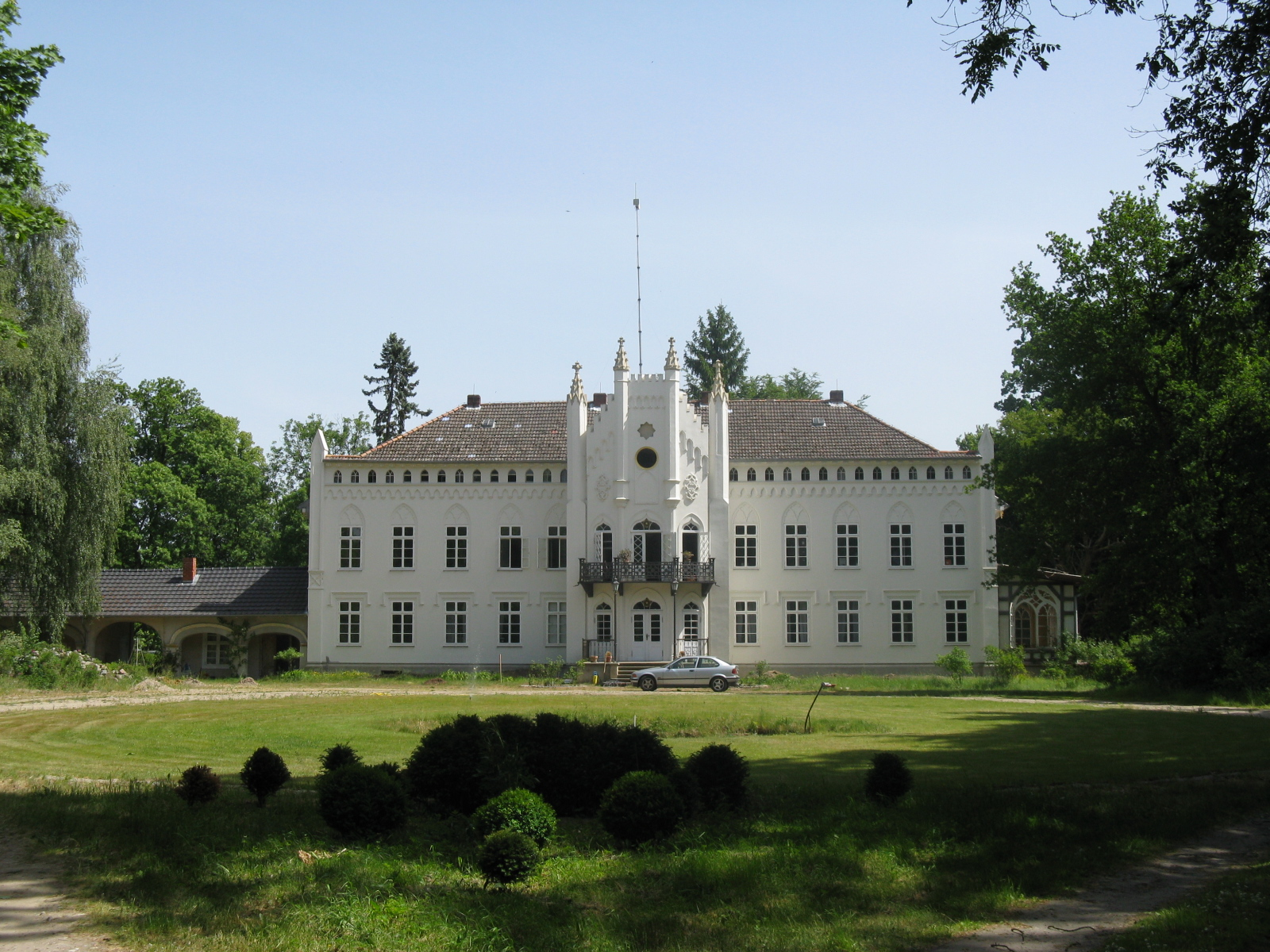 Castle in Quassel (Lübtheen), Mecklenburg-Vorpommern, Germany